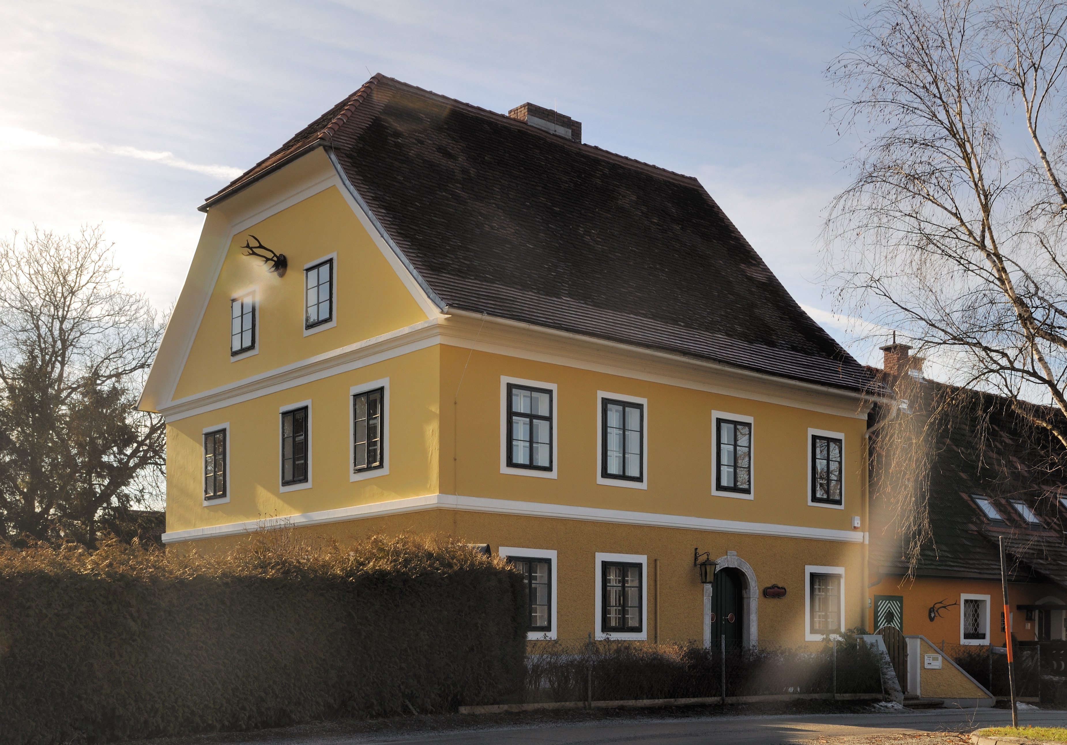 Thal: birthplace of Arnold Schwarzenegger